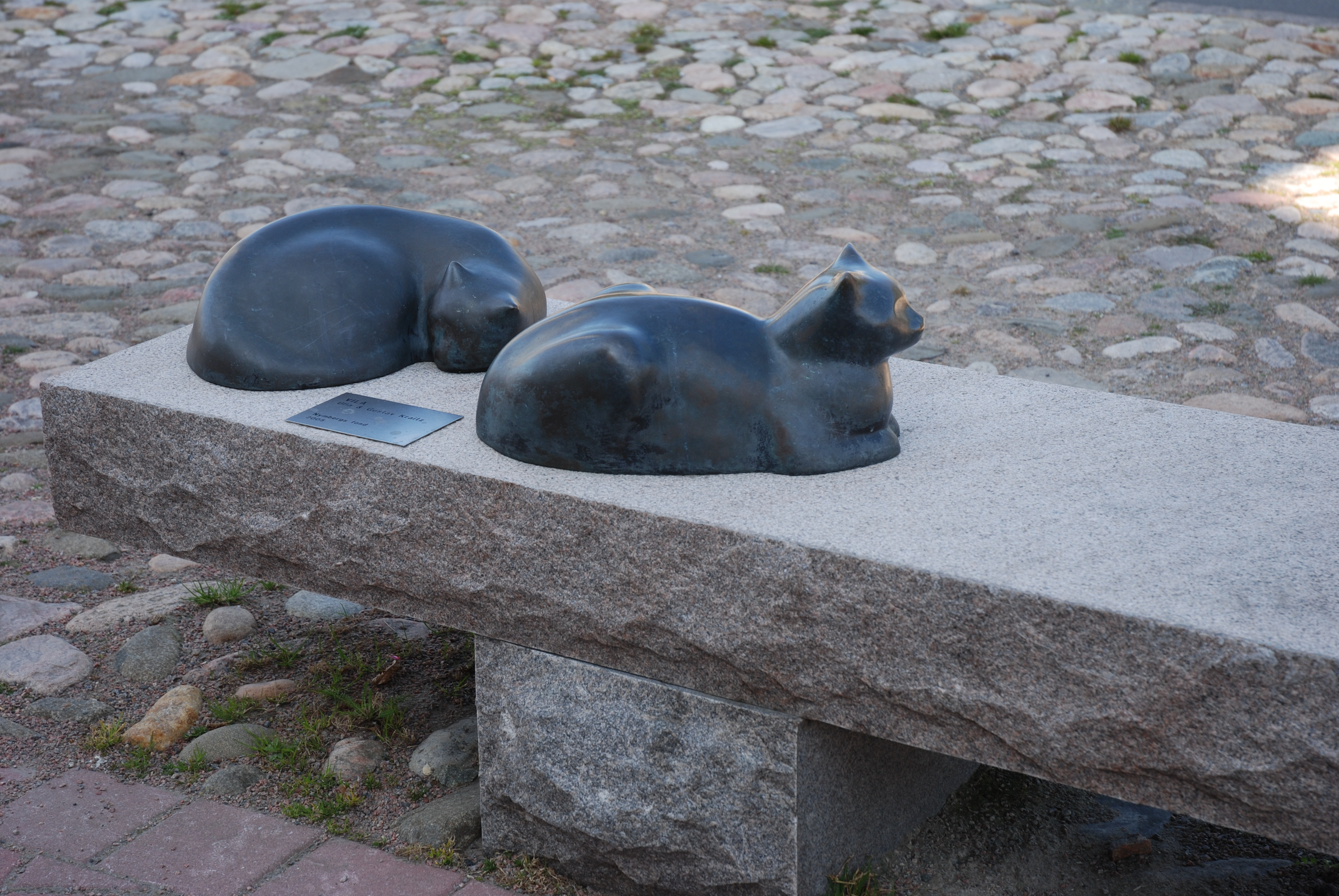 Gustav and Ulla Kraitz´ Trygghet (Safety, 2005), bronze and granite, Höganäs, Sweden